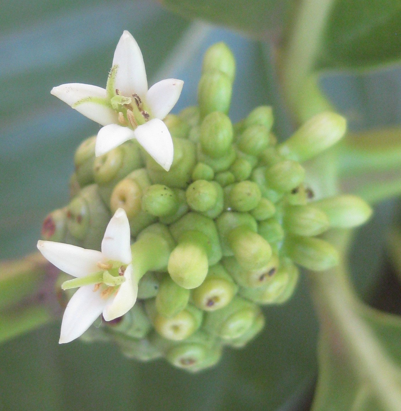 Flowers of the noni shrub (Morinda citrifolia, family Rubiaceae). The foul smelling ripe fruits are often commercialized in health products.